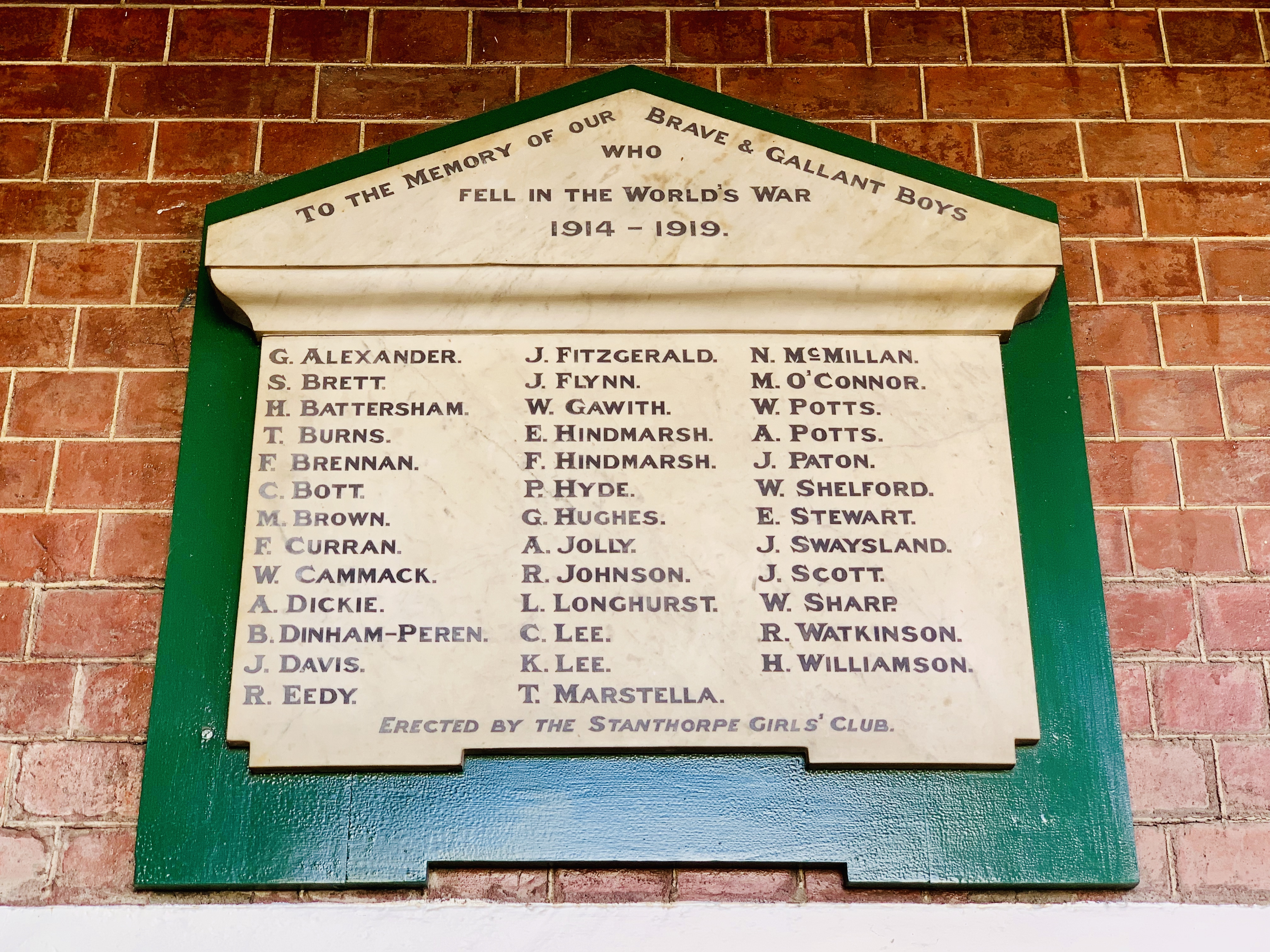 War Memorial Stanthorpe Post Office, Queensland, 2019